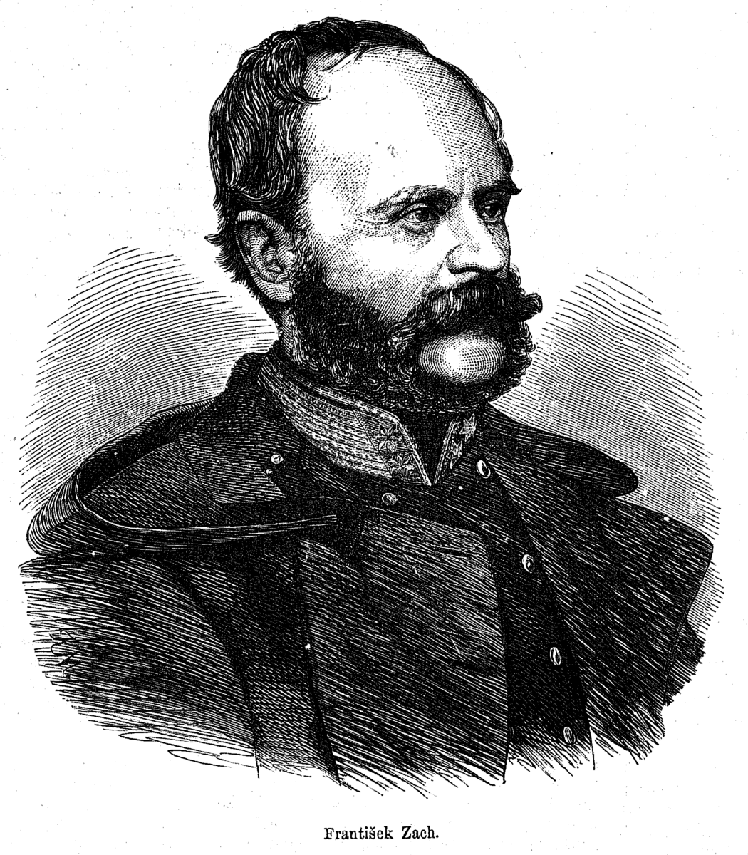 Portrait of General František Alexandr Zach, a Czech serving in Serbian army.